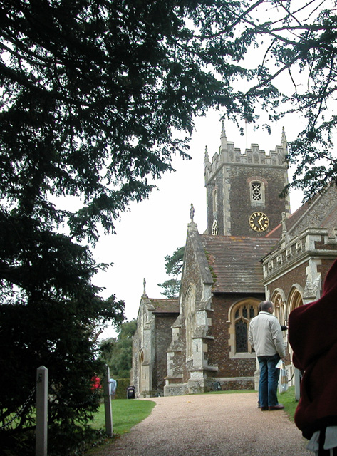 "St Mary Magdalen" Church, Sandringham, Norfolk, Great Britain